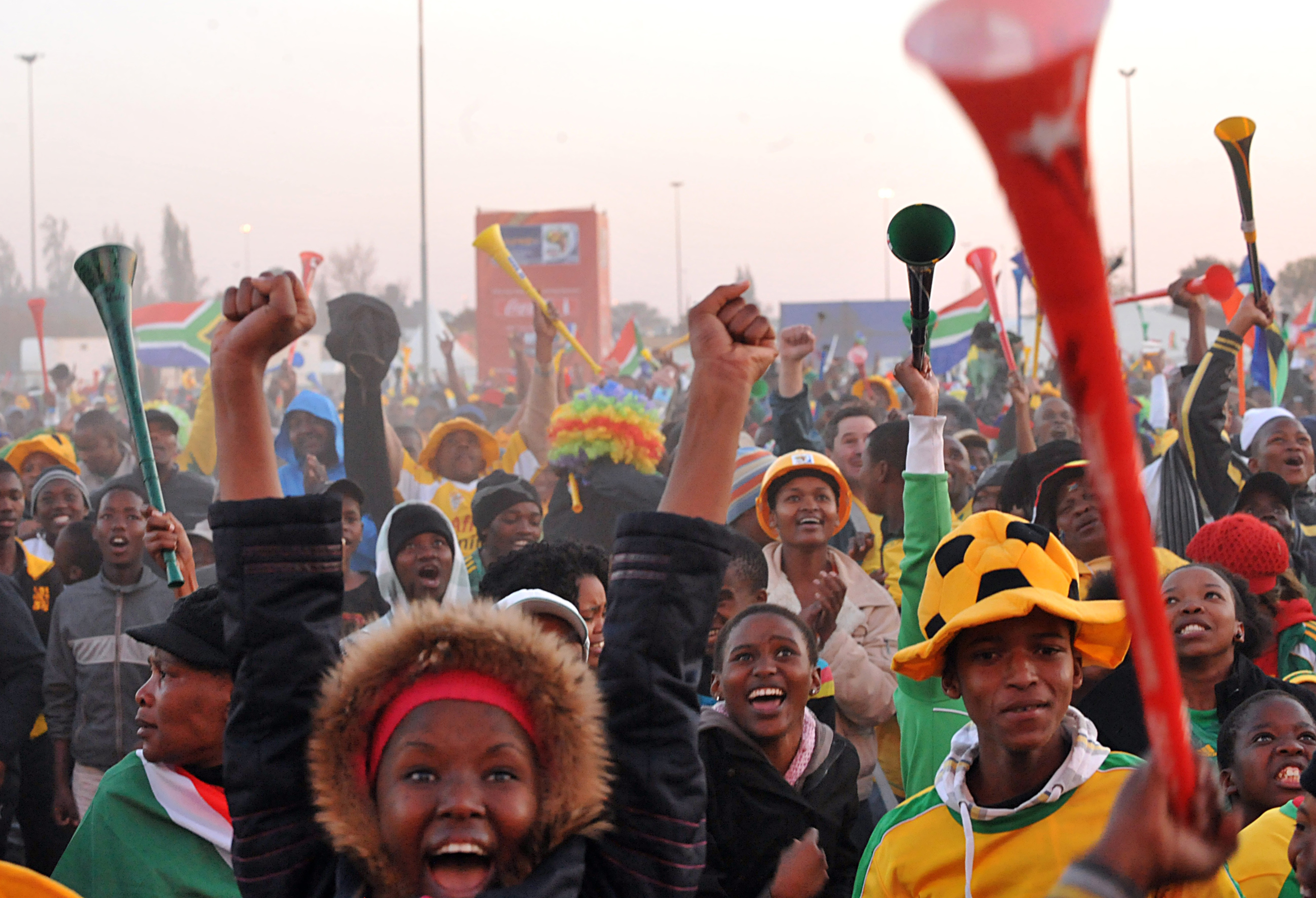 Johannesburg - Fans of Bafana Bafana, as the South African soccer team is popularly known, watching the opening game of the World Cup on a big screen set up by FIFA in Soweto.